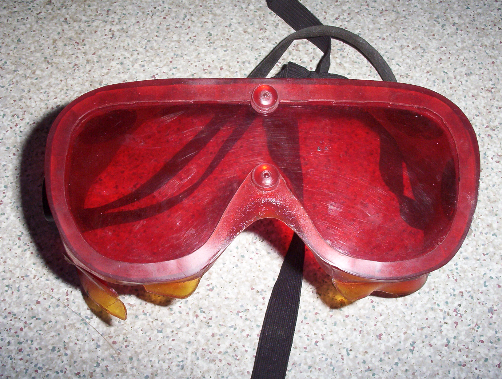 These are used at night prior to going outside to adapt the eyes to the dark. Picture taken at Cambridge Bay, Nunavut, Canada.